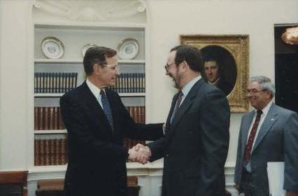 PRESIDENT AND MRS. BUSH GREET H.E. DATO SERI LAILA JASA HAJI MOHAMMAD KASSIM BIN HAJI DAUD, STATE OF BRUNEI DARUSSALAM AND MRS. LATIFAH KASSIM. THE AMBASSADOR PRESENTS HIS DIPLOMATIC CREDENTIALS TO THE PRESIDENT IN THE BLUE ROOM. GEN. SCOWCROFT, KENNETH QUINN AND PETER WATSON, NSC ARE PRESENT. THE BUSHES SHAKE HANDS WITH THE KASSIMS IN THE GREEN ROOM; PRESIDENT BUSH AND GEN. BRENT SCOWCROFT WALK ALONG THE COLONNADE TOWARDS THE OVAL OFFICE AFTER PRESENTATIONS OF DIPLOMATIC CREDENTIALS; PRESIDENT BUSH MEETS WITH SEC. MANUEL LUJAN, SEN. JAMES WATKINS, SEN. BENNETT JOHNSTON, SEN. MALCOLM WALLOP, SEN. FRANK MURKOWSKI, REP. DON YOUNG, GOV. SUNUNU AND FRED MCCLURE REGARDING ENERGY POLICY.